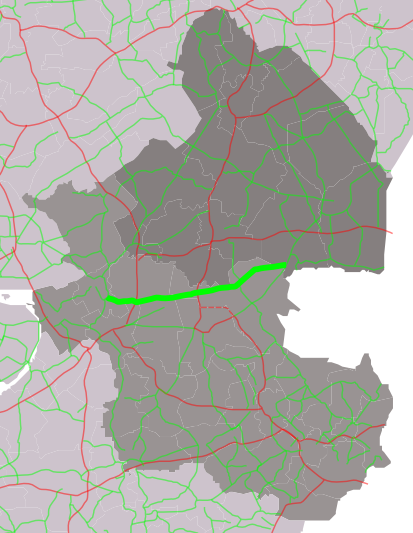 Map of Overijssel and Drenthe with Dutch provincial road no. 377